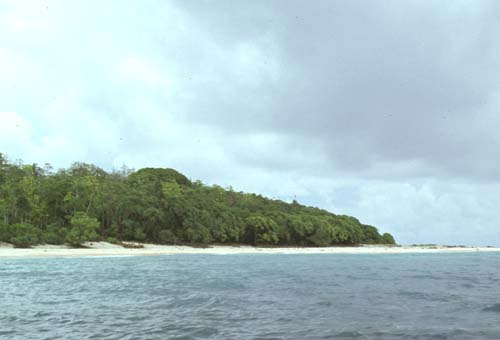 View of the south end of Dongosaro (Sonsorol) Island, Southwest Islands of Palau. Original field note: From offshore, beyond the wide reef flats. Notice how here the indigenous vegetation has not been replaced by coconuts, therefore is less subject to wind or storm damage. Good sandy beaches with loose sand for nesting green turtles. The large tree with rounded deep green canopy is probably a laurel, of which there were many specimens, the largest being 19 m (nearly 60 feet) tall.